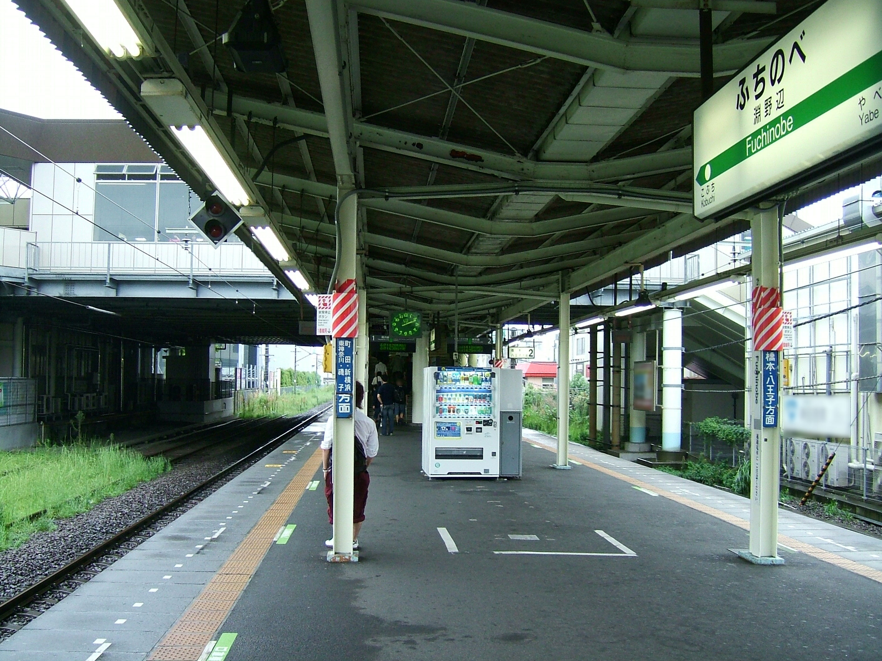 Fuchinobe Station platform (East Japan Railway Yokohama Line)